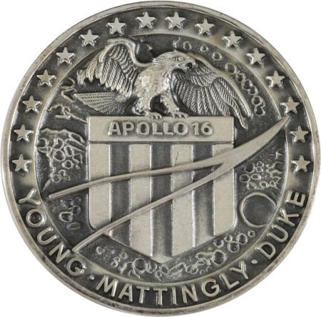 Photo of one of the 300 Robbins Medallions made for Apollo 16. This medallion is presently owned by former NASA worker Phil Konstantin.